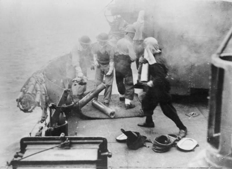 A 4.7-inch gun crew in action on the Australian destroyer HMAS Arunta during the bombardment to support landings at Hollandia in Dutch New Guinea.